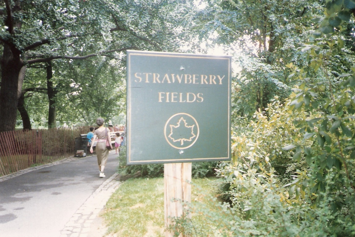 strawberry fields, central park, new-york, u.s.a